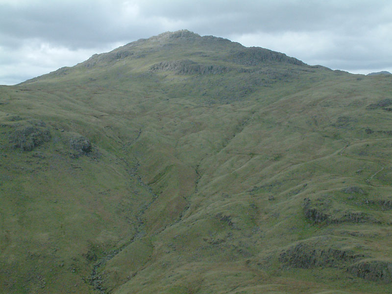 Pike of Blisco from the ridge of Wet Side Edge, between the Three Shire Stone and Great Carrs Photograph by Stephen Dawson, 14 May 2004.